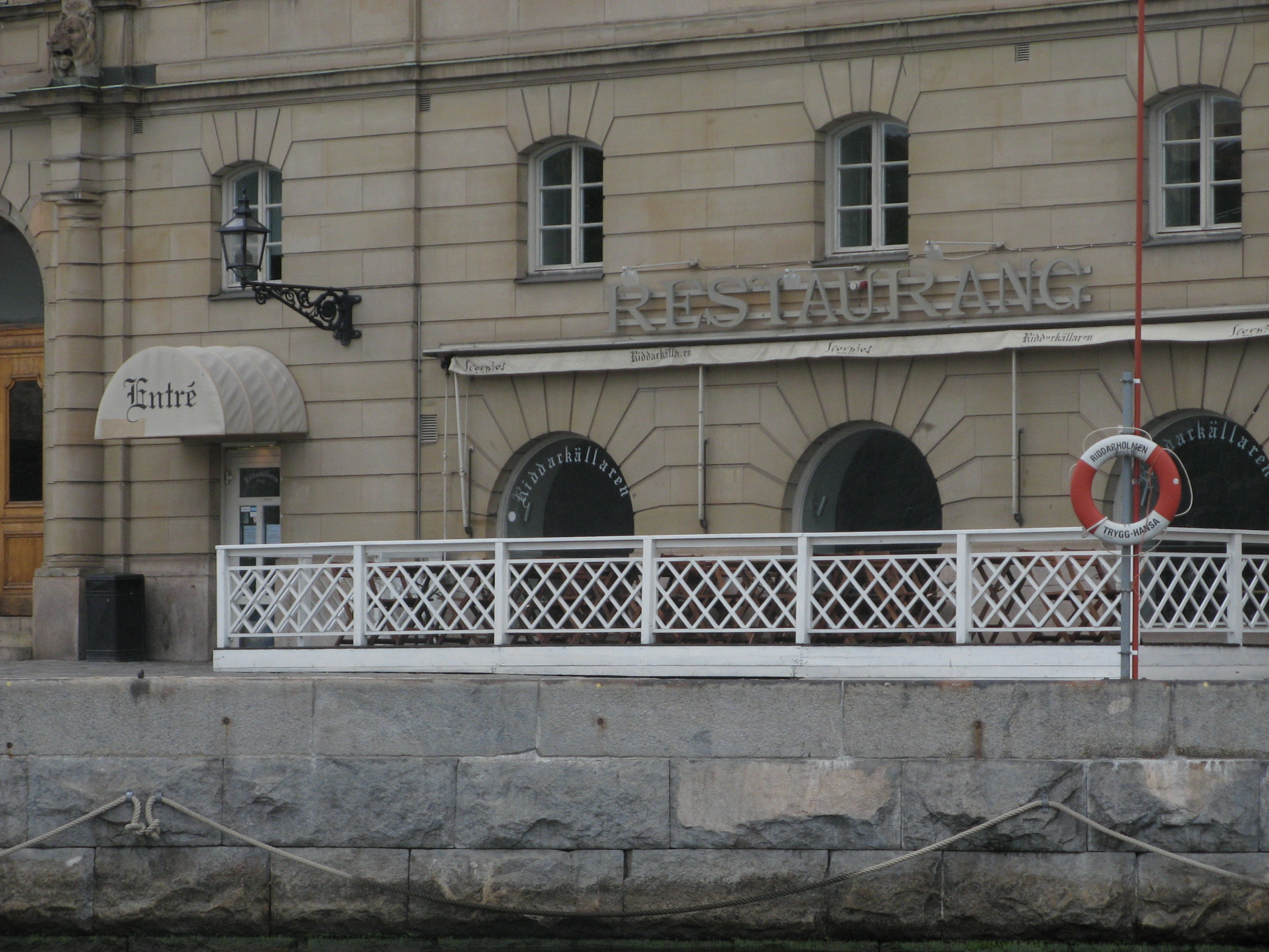 Restaurant in Stockholm (Sweden), where one can see two words devived form